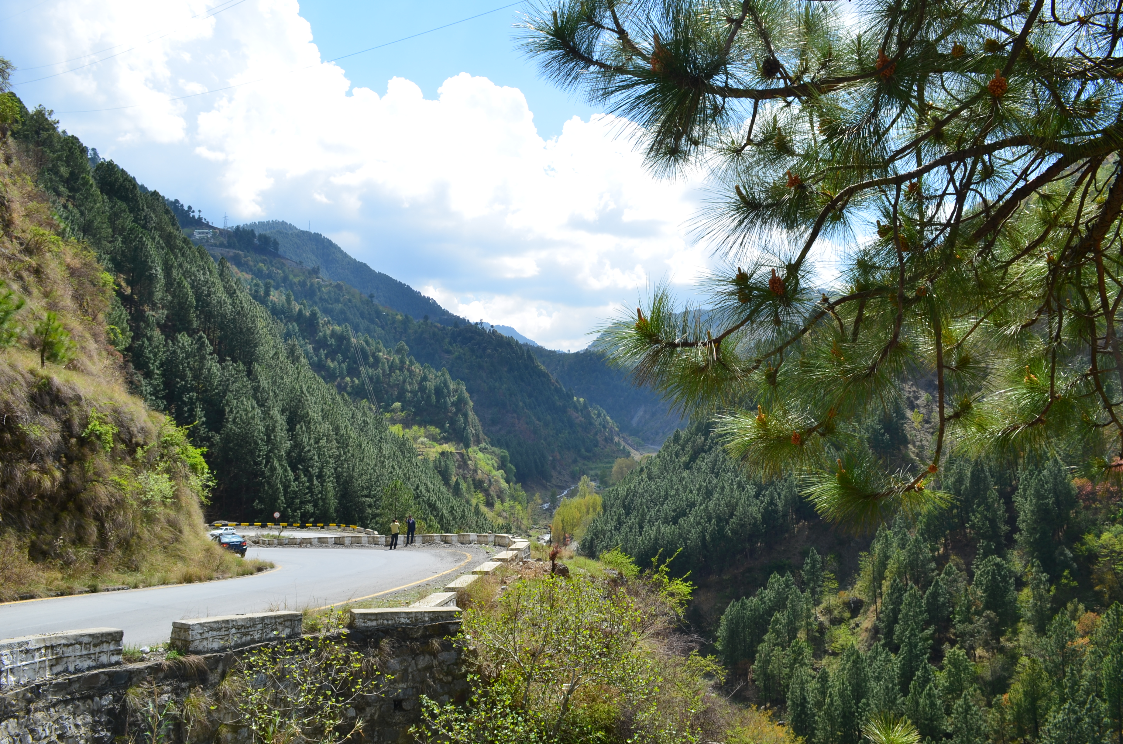 Abbotabad Nathiagali road